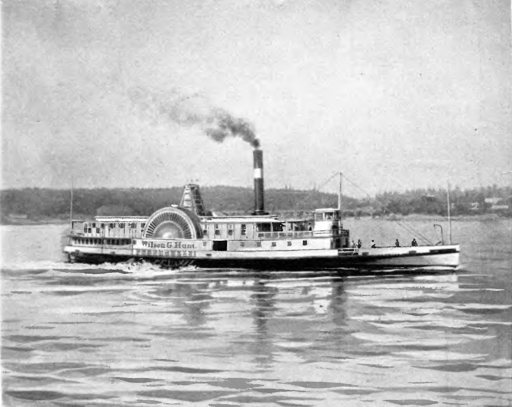 Sidewheeler Wilson G. Hunt